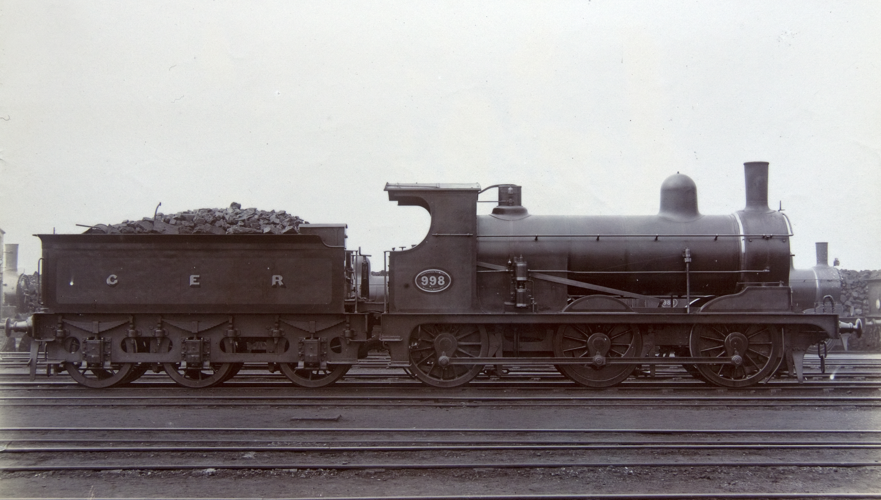 N31 Class 0-6-0. Although 81 were built between 1891 and 1898, they were troublesome in service, having a reputation for poor steaming, priming, and sluggishness. From 1900 reboilering of the N31s commenced with the latest pattern 160 lbs. boilers, and a total of 31 engines were so treated down to 1908, including the additional N31 No. 935, rebuilt from the compound No. 127. By the end of 1914 only 29 of the 82 engines remained. Scrapping began again in earnest from 1920, and only twelve were taken over by the LNER in 1923 as class J-14, and all were withdrawn within two years without being renumbered. This photo was taken from an old original photo we came across while helping to clear the house of a deceased friend. I have uploaded it to Flickr in the hope that it might be interesting to steam enthusiasts.